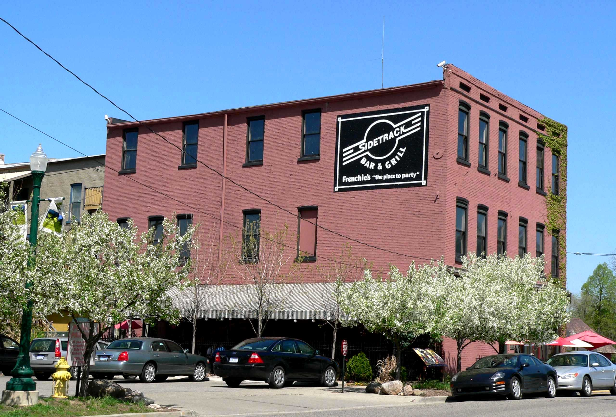 The rear of Sidetrack Bar & Grill in Depot Town, Ypsilanti, Michigan.